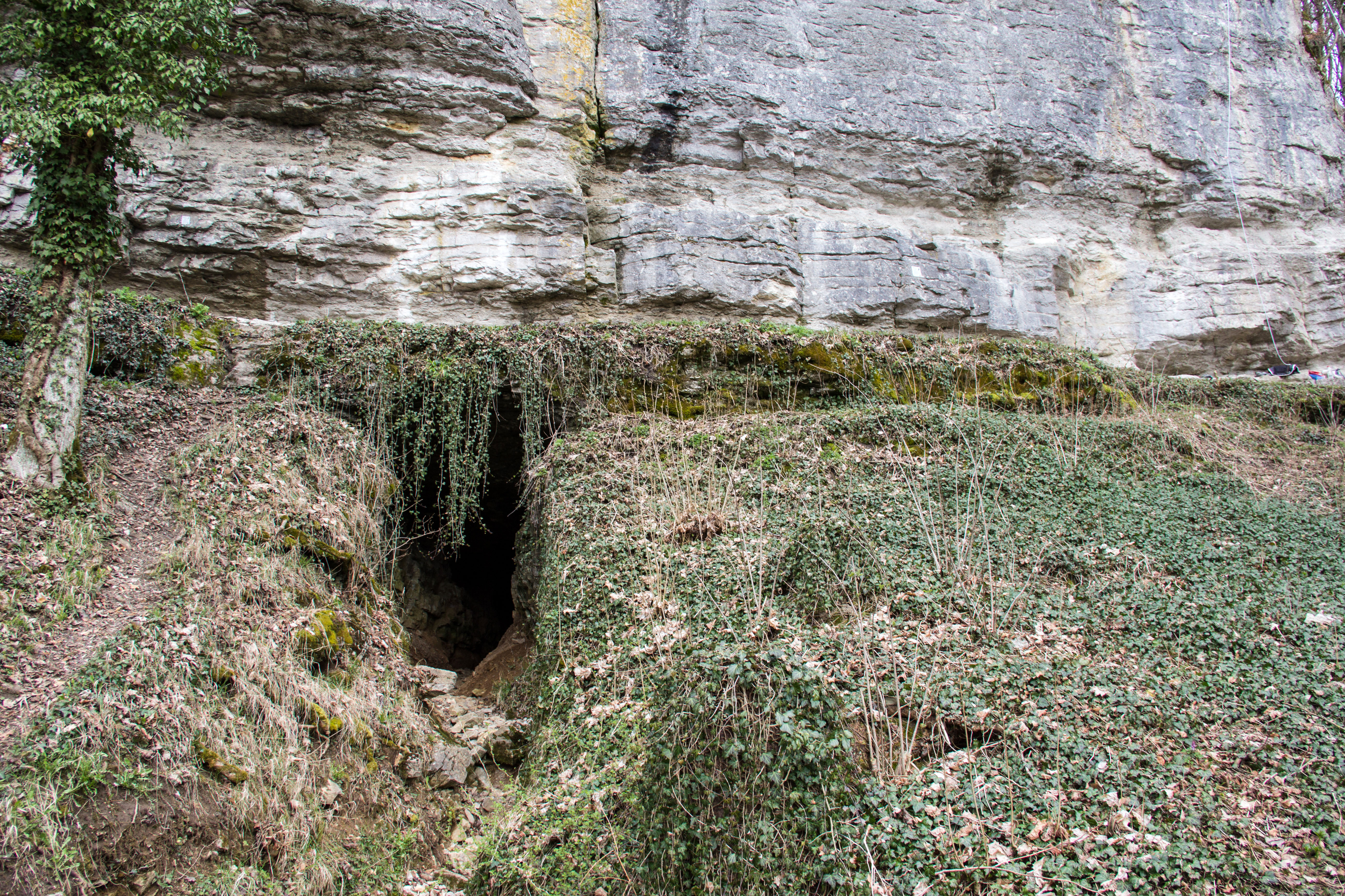 Schneiderloch, Streitberg